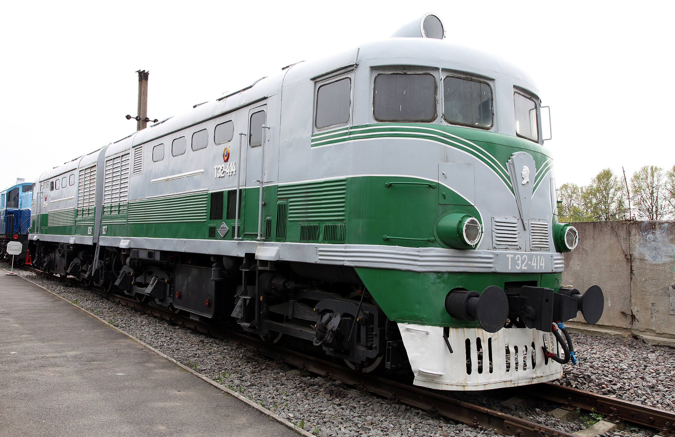 TE2-414 diesel locomotive